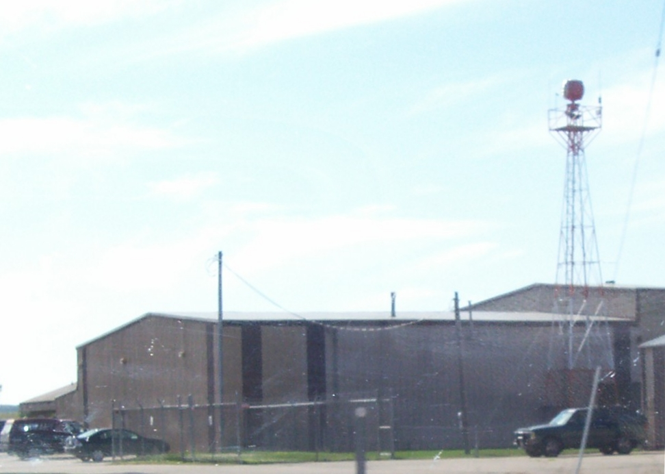 Waupaca Municipal Airport east of Waupaca, Wisconsin, USA, just north of U.S. Route 10.